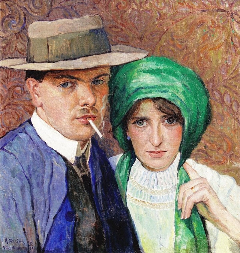 Verlovingsportret Georg Hering en Pauline Spaander